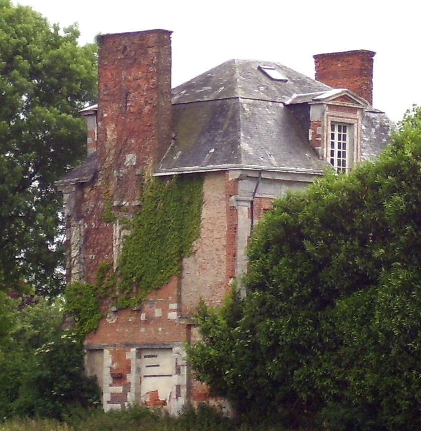 Baroque pavilion (17th century) in Brétigny (Eure), France. It was part of a castle that was destroyed by bombs in 1944 (World War II).